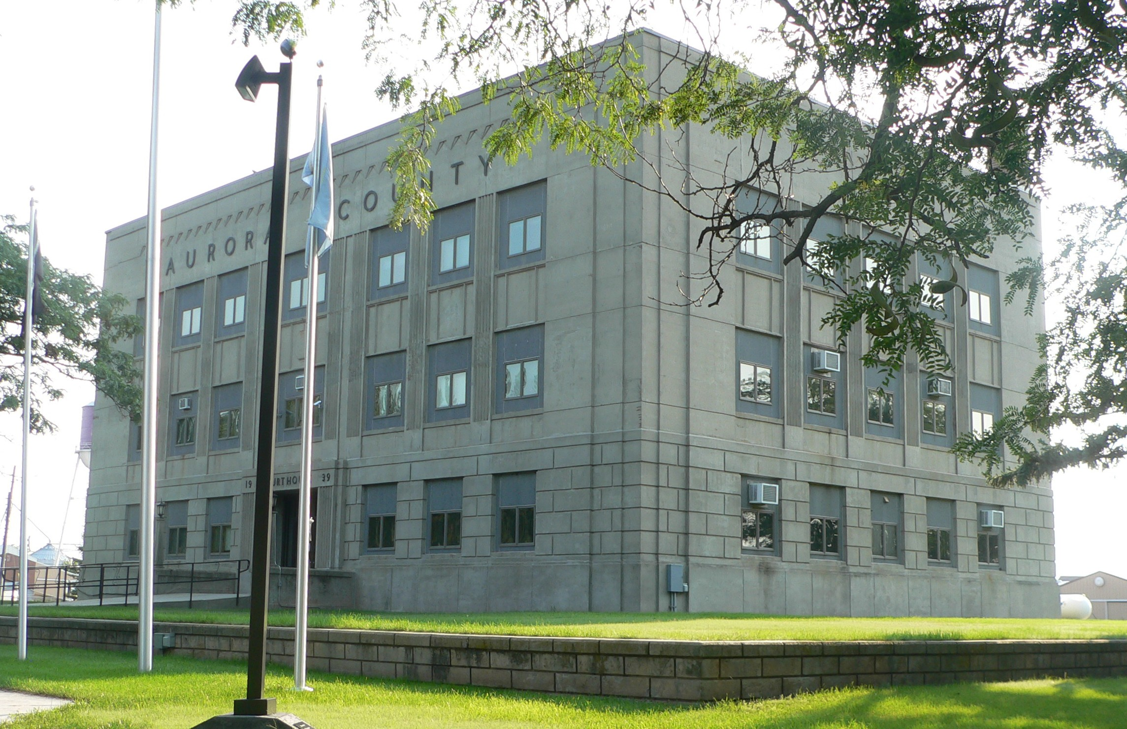 Aurora County courthouse, on west side of Main Street between 4th and 5th Streets in Plankinton, South Dakota; seen from the northeast.